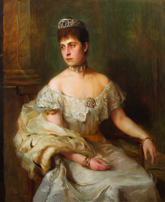 Duchess Charlotte of Saxe-Meiningen, née Princess of Prussia